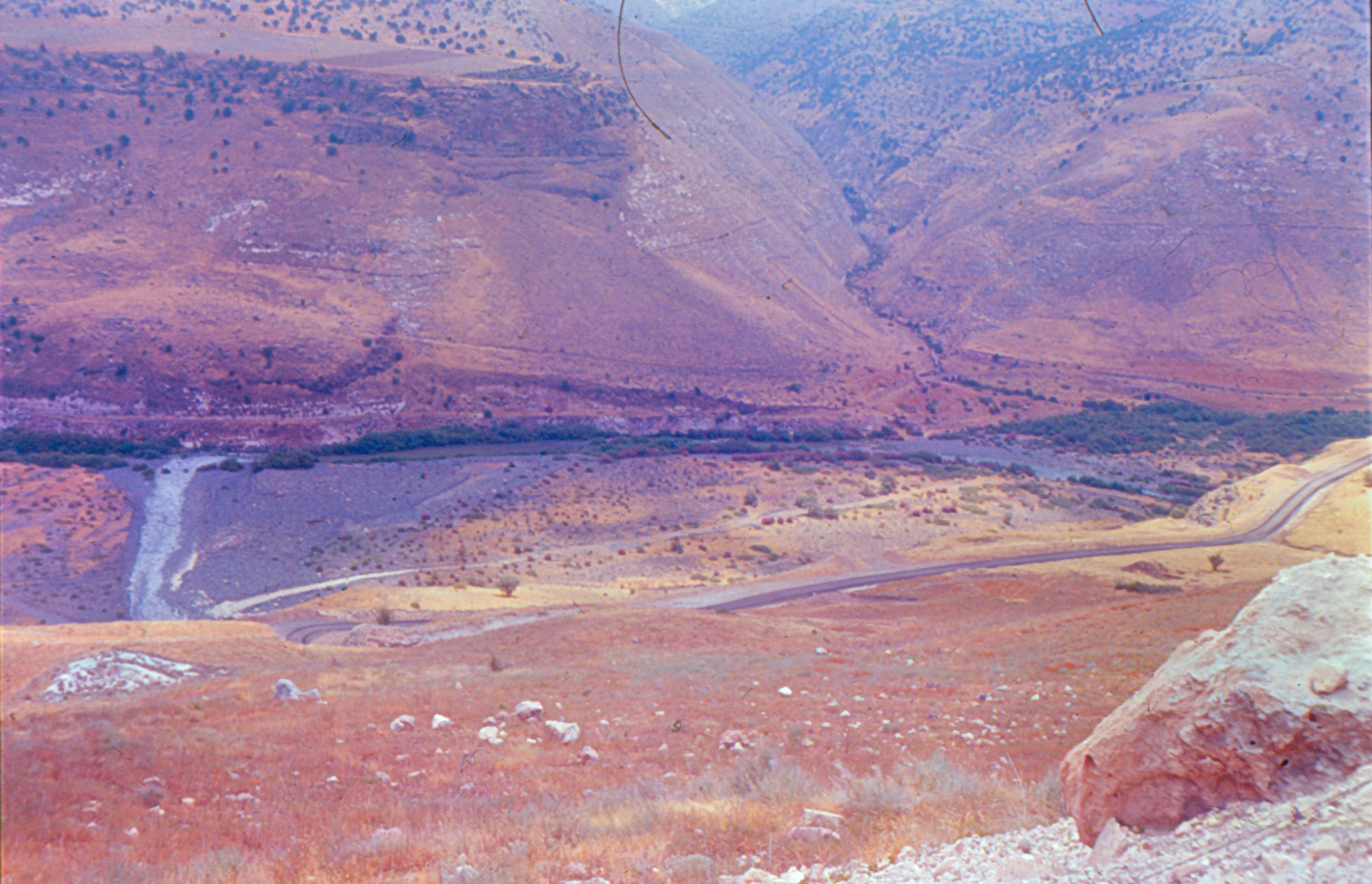 Yarmouk_River__from_Israel_